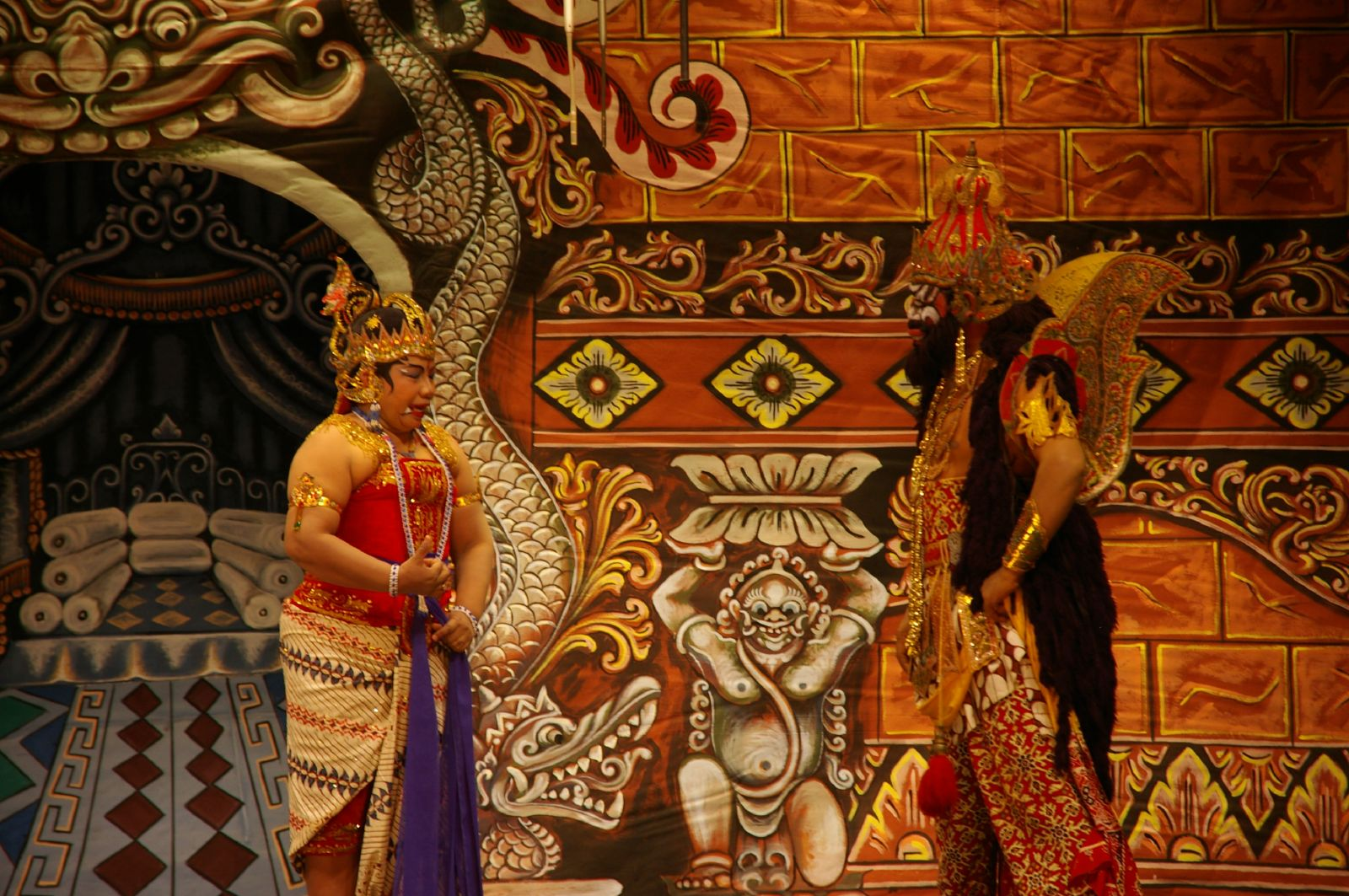 Javanese dance performance. Rahwana and his sister Sarpakenaka(?), the evil demons of Ramayana.